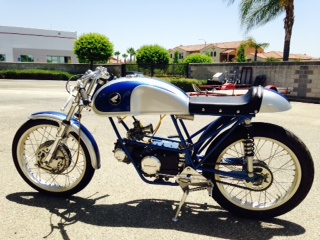 This is my personal photo and I am the author.